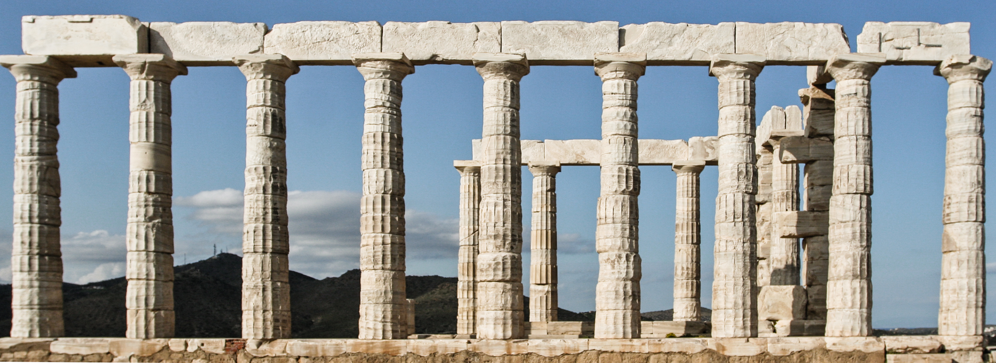 Temple of Poseidon, 444 BC, Cape Sounion, Greece